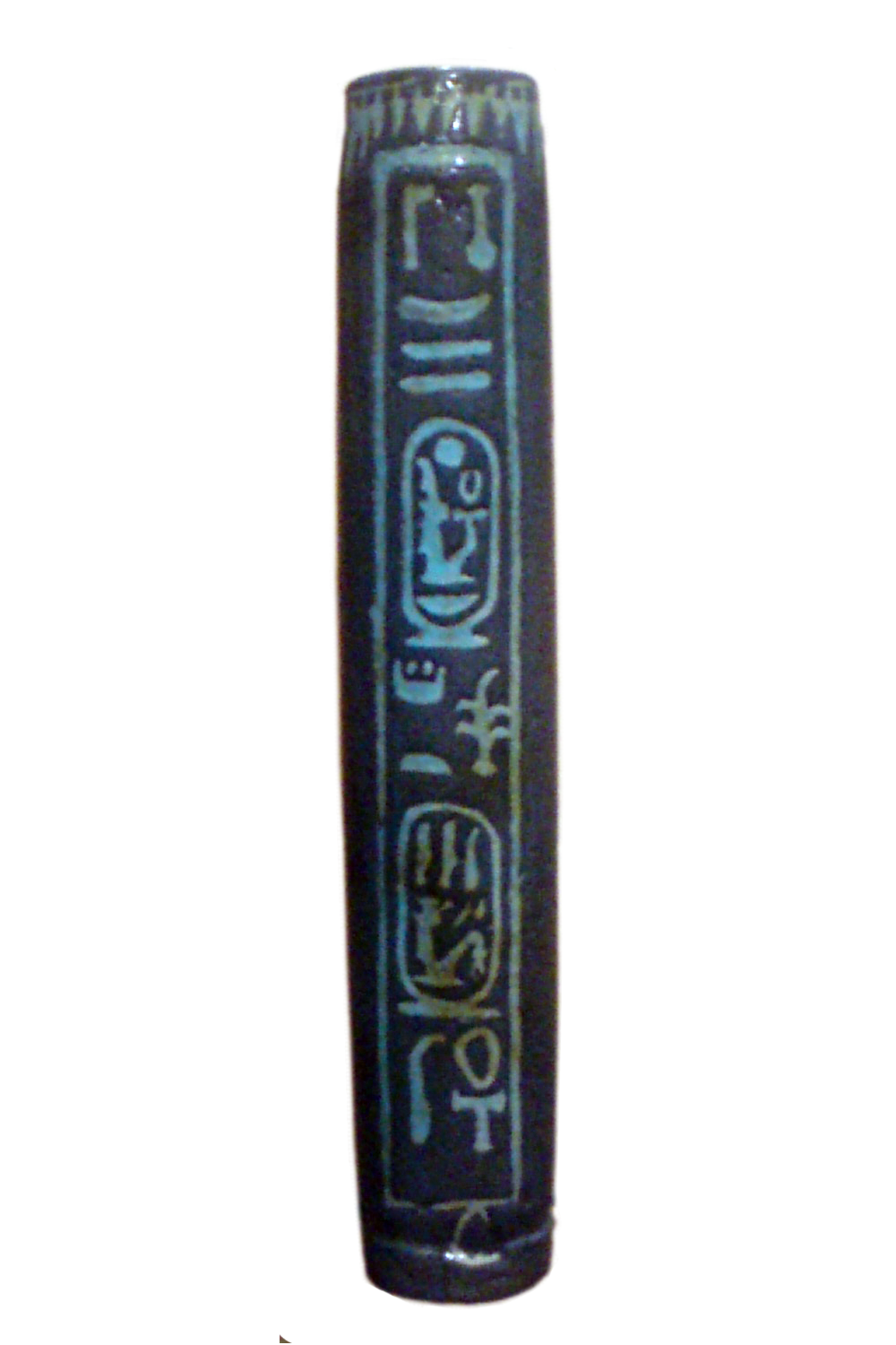 Kohl cosmetic tube inscribed with the cartouches of Amenhotep III and Queen Tiye. {Some of the hieroglyphs:) Ntr-Nfr, Neb-taui, (Amenhotep), Sw-t, Queen Tiye, Ankh-Ti...(God-Pharaoh-Wonderful, Lord of the 2-Lands (Amenhotep)—The Kings-(kingdom's) Lady-(Wife)-Queen Tiye, "Living Ti"